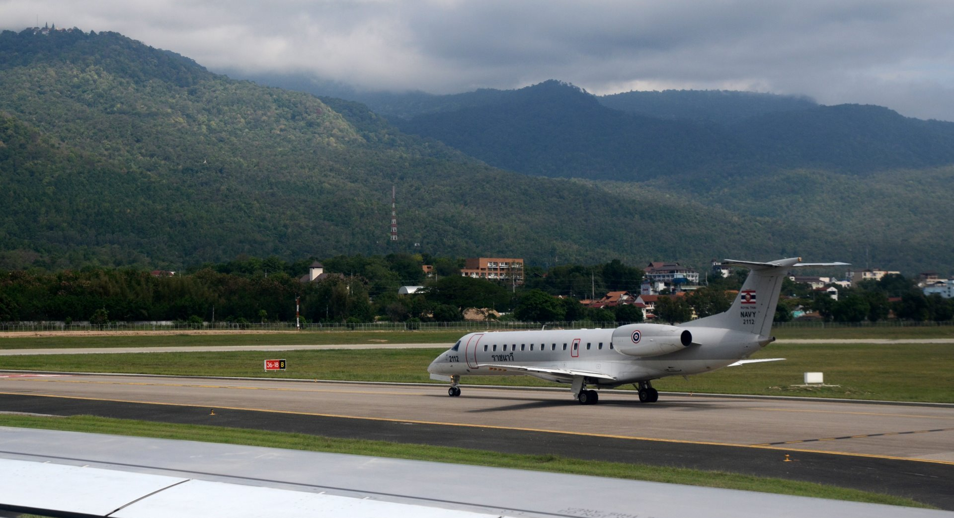 Royal Thai Navy Embraer ERJ 135LR at Chiang Mai International Airport. This photo was taken from a Bangkok Airways Airbus A319-100 bound for Bangkok. Wat Phrathat Doi Suthep can be seen in the upper left hand corner of the photo.